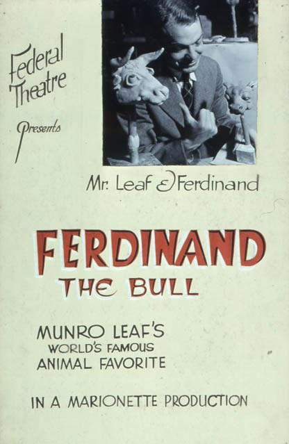 Title: Ferdinand the bull Creator: Leaf, Munro, 1905- Other Contributors: Federal Art Project, sponsor Federal Theatre Project (U.S.), sponsor United States. Work Projects Administration, sponsor Catalog No.: F10-10A-1 Date Created: 1937 Date Issued: 2002-12-19 Subjects: Theatrical posters, American Puppets DOC Collection(s): Federal Theatre Project Poster, Costume, and Set Design Slides